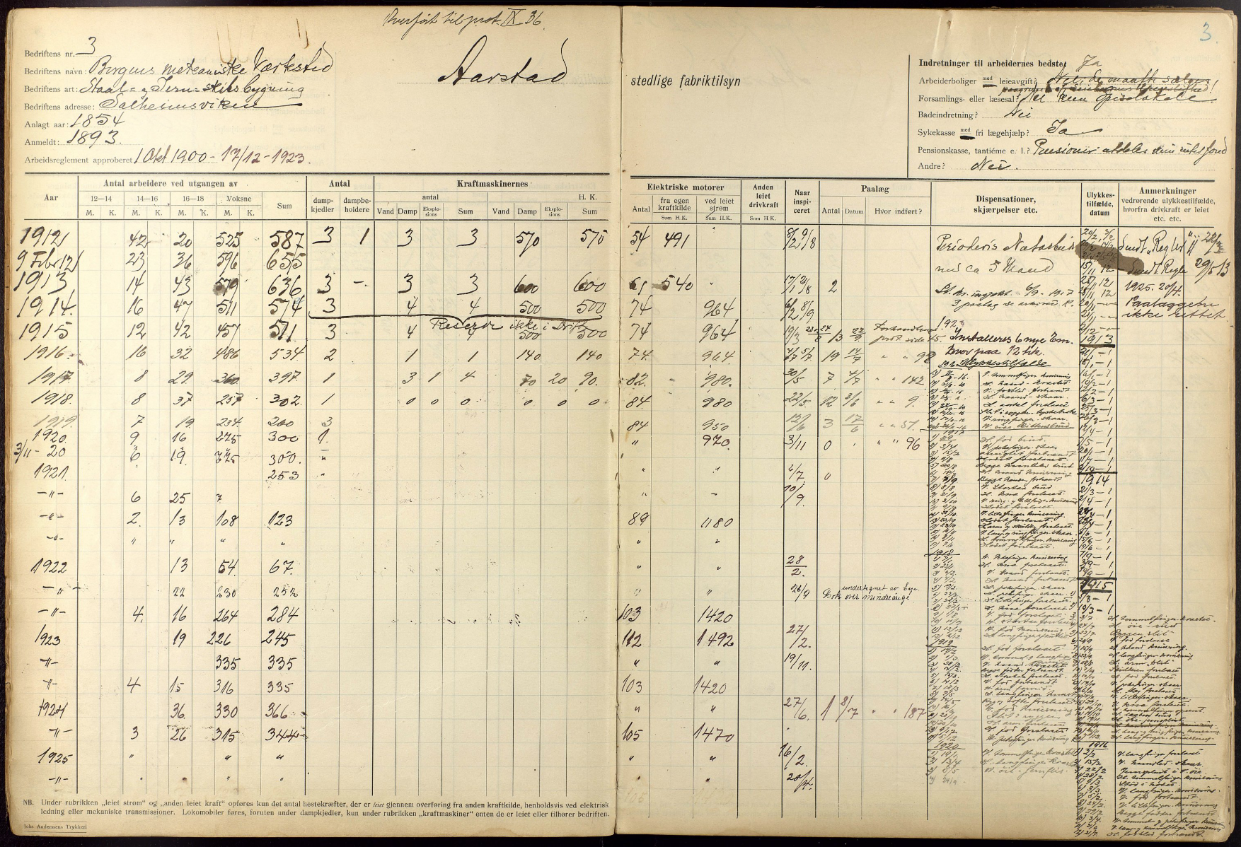 Side i tilsynsprotokoll i arkiv etter Det stedlige fabrikktilsynet i Bergen, oppbevart ved Bergen Byarkiv.